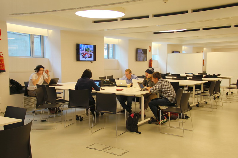 Launch pad at Maria de Molina, 31